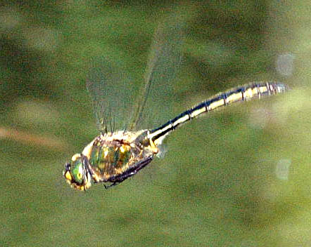 Picture taken in Commanster, Belgian High Ardennes . Species: Somatochlora metallica